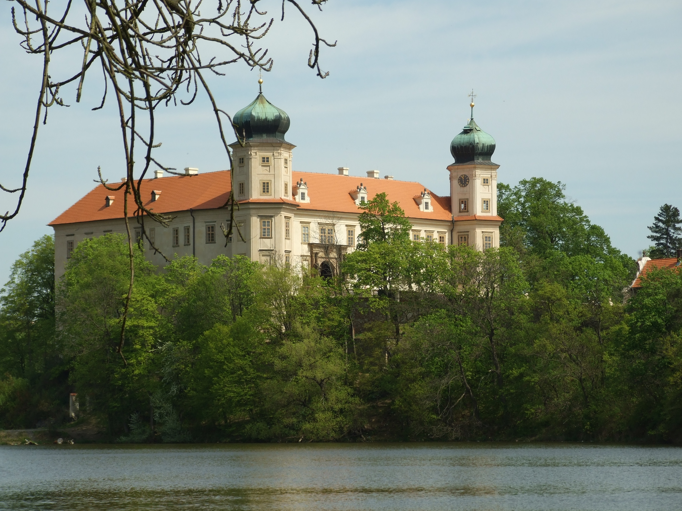 Town of Mníšek pod Brdy - here the Zámecký rybník pond is seen - and its surrounding nature in Central Bohemian region, CZhelp